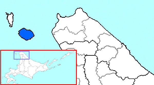 Location of Rishiri island (利尻島, rishiritō) in Soya Subprefecture, Hokkaido, Japan